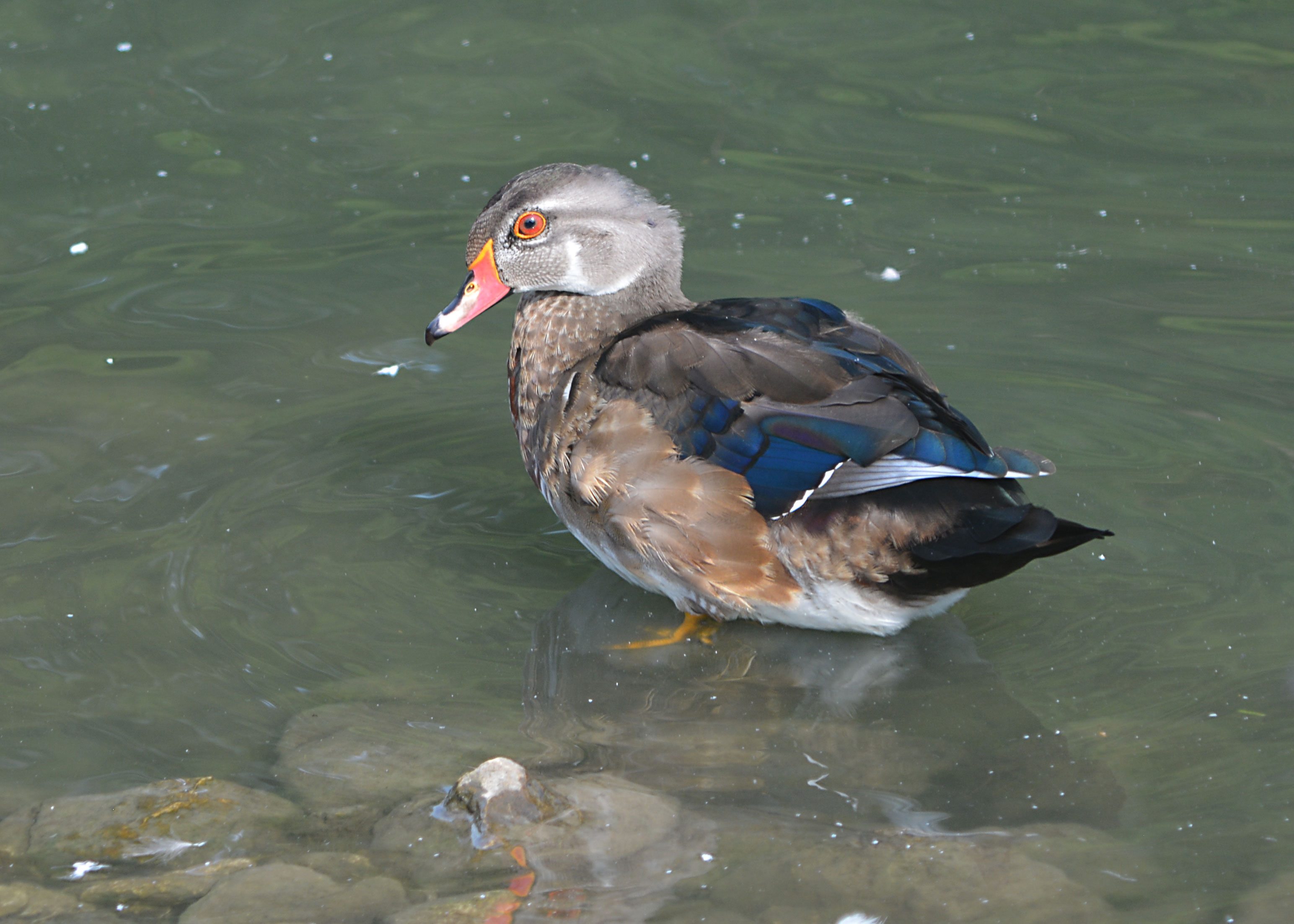 Male Wood Duck in park pond in Springfield, Illinois USA